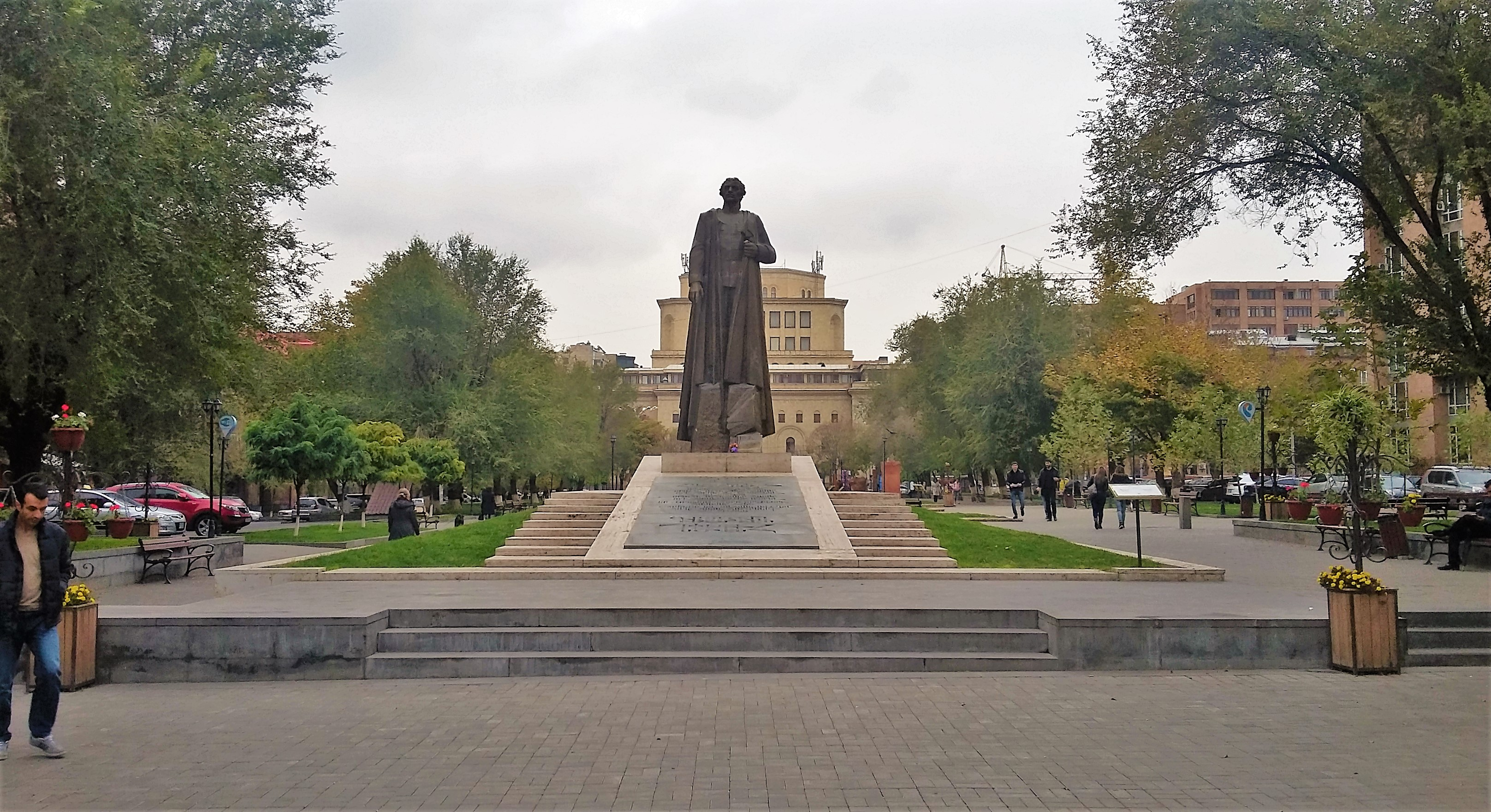 Garegin Nzhdeh monument, Yerevan